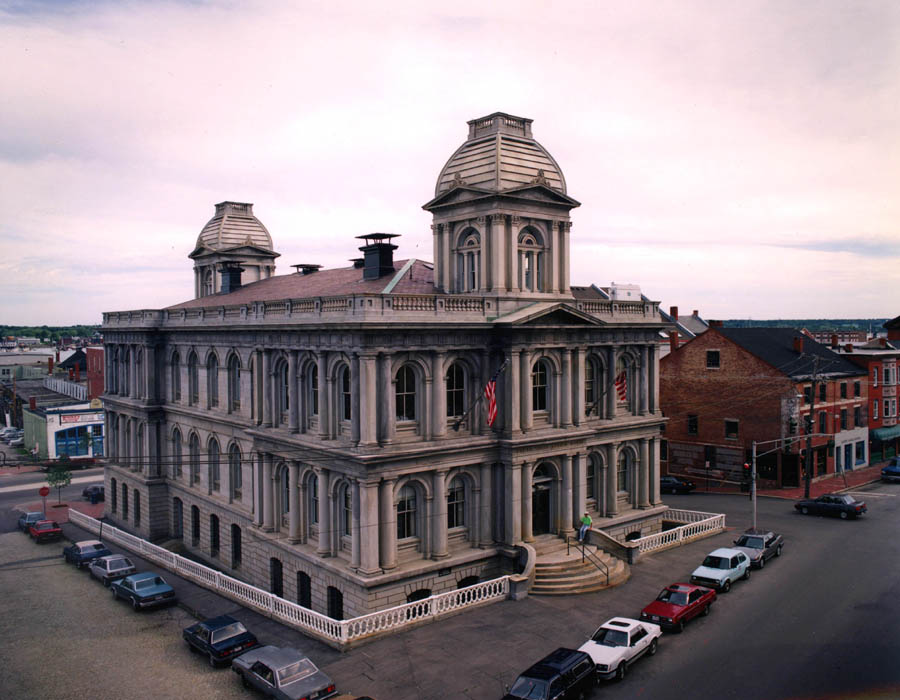 Exterior of the U.S. Customhouse, located at 312 Fore Street in Portland, Maine, United States. Built in 1868, it is listed on the National Register of Historic Places.